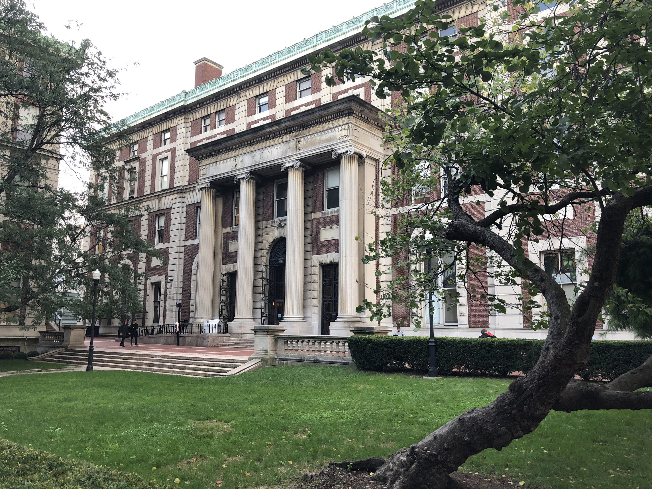 Kent Hall (Starr East Asian Library), Columbia University